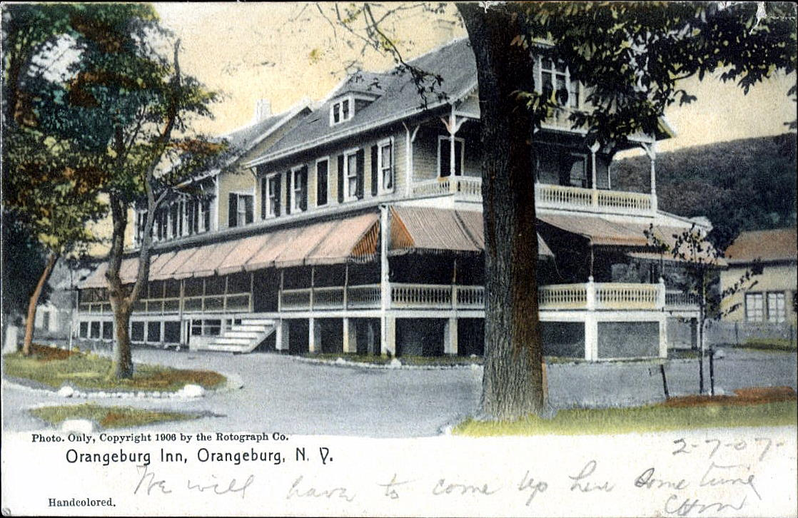 Orangeburg Inn, Orangeburg